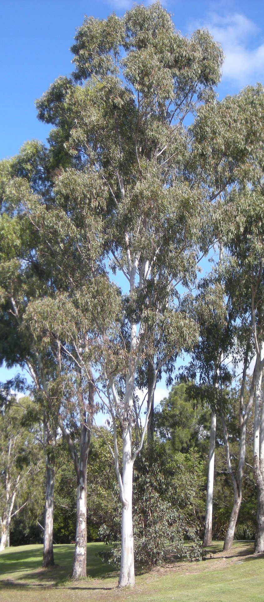 Eucalyptus tereticornis trees — coastal Central Queensland.